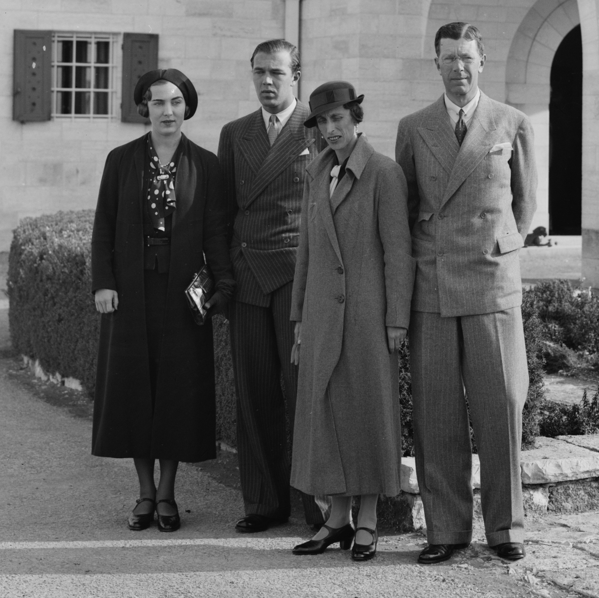 Swedish royalty in front of Government House, Jerusalem; Ingrid and Bertil with their father crown prince Carl Gustaf and their stepmother Louise.